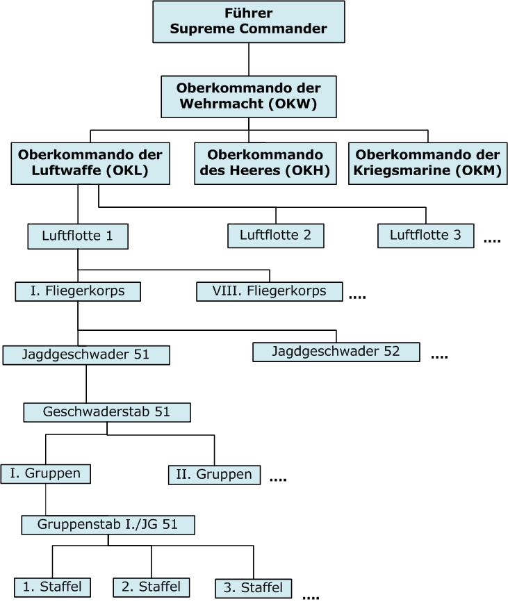 Organizational Command Structure of Luftwaffe during the Period of 1933 to 1945. This information is sourced primarily from page 15 of United States War Dept (1995) Handbook on German Military Forces, LSU Press, p. 635 ISBN: 0807120111. The information provided in this image is also referenced from page 14 of Frieser, Karl-Heinz; Greenwood, John T. (2005) The Blitzkrieg Legend: The 1940 campaign in the West, Naval Institute Press, p. 507 ISBN: 1591142946.